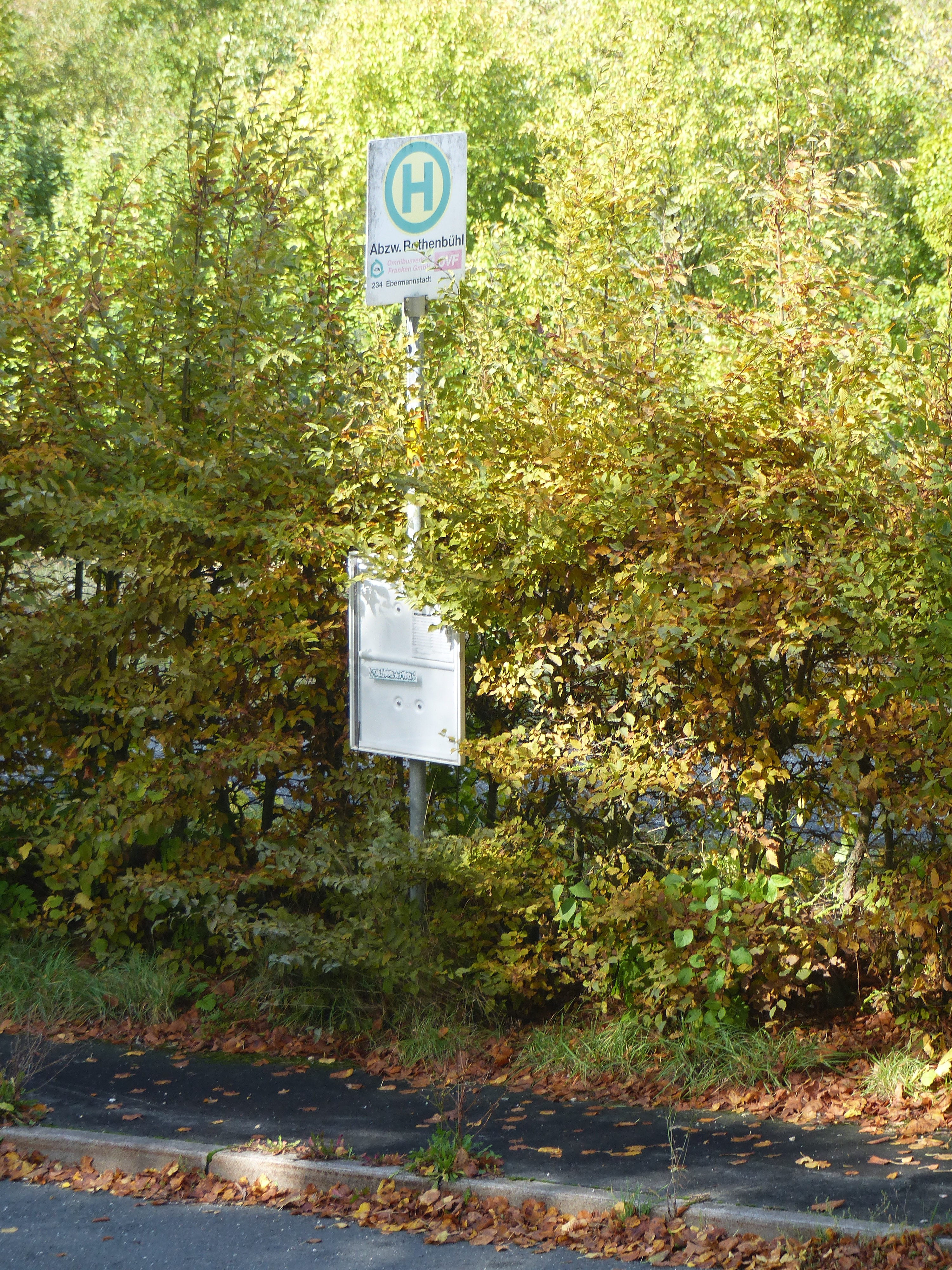 The bus stop of the hamlet Rothenbühl, a district of the town of Ebermannstadt.